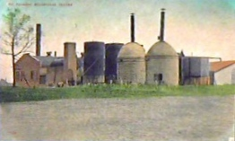 Image of refinery at Asphaltum, Indiana. Tinted photograph made into postcard.